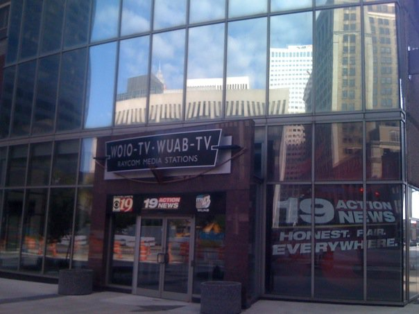 Image of WOIO & WUAB's studios in Cleveland, Ohio.